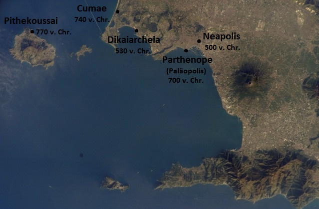 greek colonies in campania